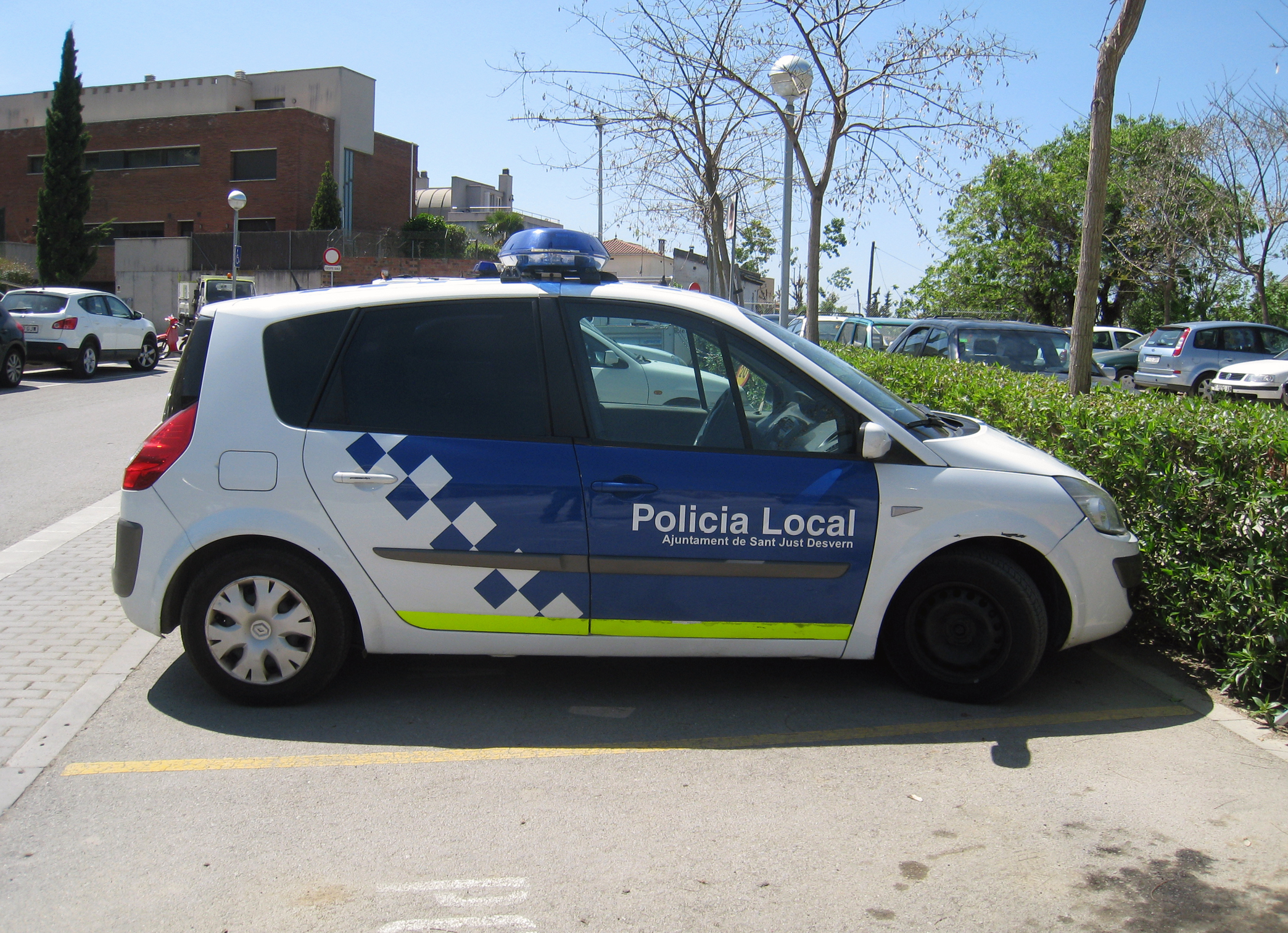 Vehicle of the Policia Local (the local police) of Sant Just Desvern, Catalonia, Spain.